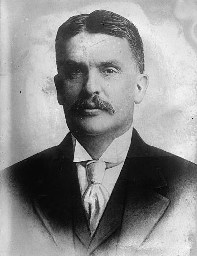 Thomas Mott Osborne (1859 - 1926),a U.S. prison reformer, industrialist and New York State political reformer